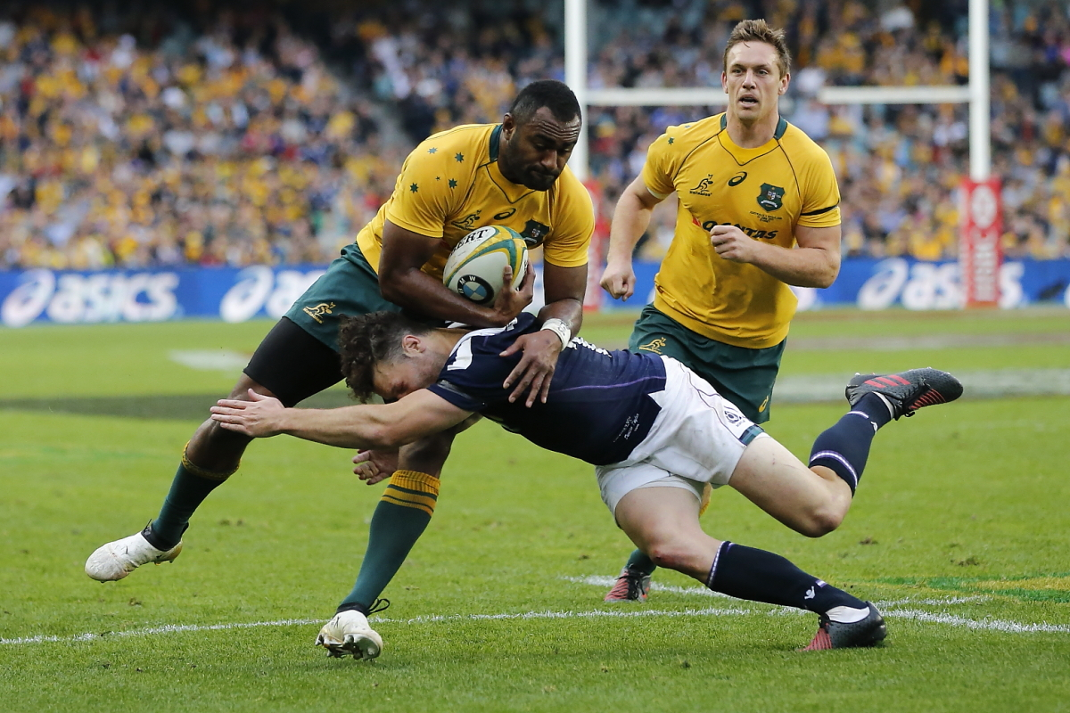 2017.06.17.16.22.03-Tevita Kuridrani carry-0003 The 2017 mid-year rugby union international, 17 June 2017, Australia vs Scotland at Allianz Stadium, Sydney